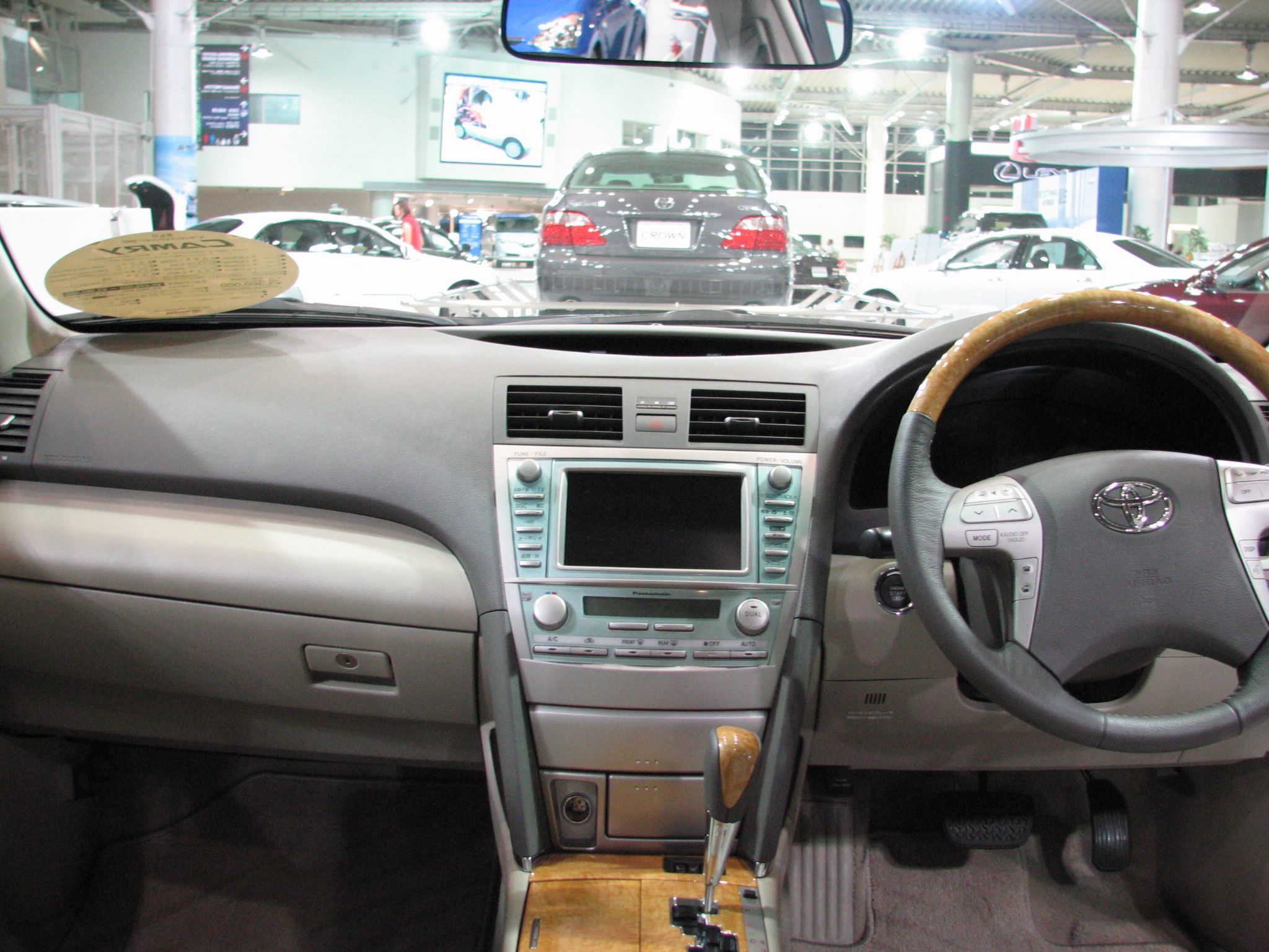 Interior of a 2006 Toyota Camry, photographed in Japan.